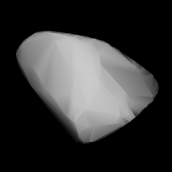 3D convex shape model of (4489) 1988 AK, computed using light curve inversion techniques. J. Hanuš, J. Ďurech, M. Brož, B. D. Warner (June 2011). "A study of asteroid pole-latitude distribution based on an extended set of shape models derived by the lightcurve inversion method". Astronomy and Astrophysics 530: A134. ISSN 0004-6361. arXiv